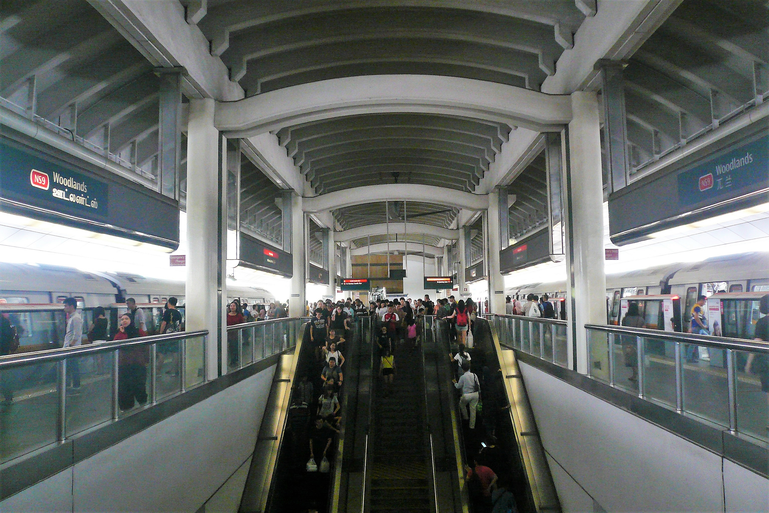 Woodlands NSL Platform